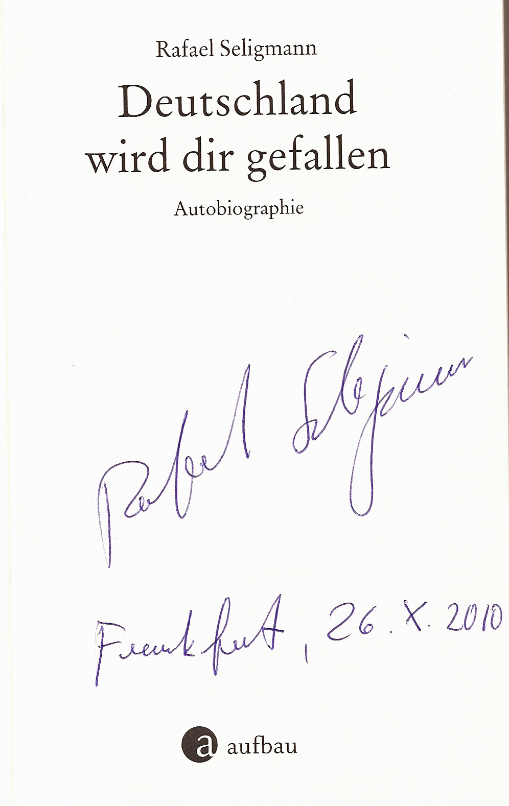 Autograph from Rafael Seligmann, Jewish German writer and journalist, 2010 in Frankfurt am Main, Germany.